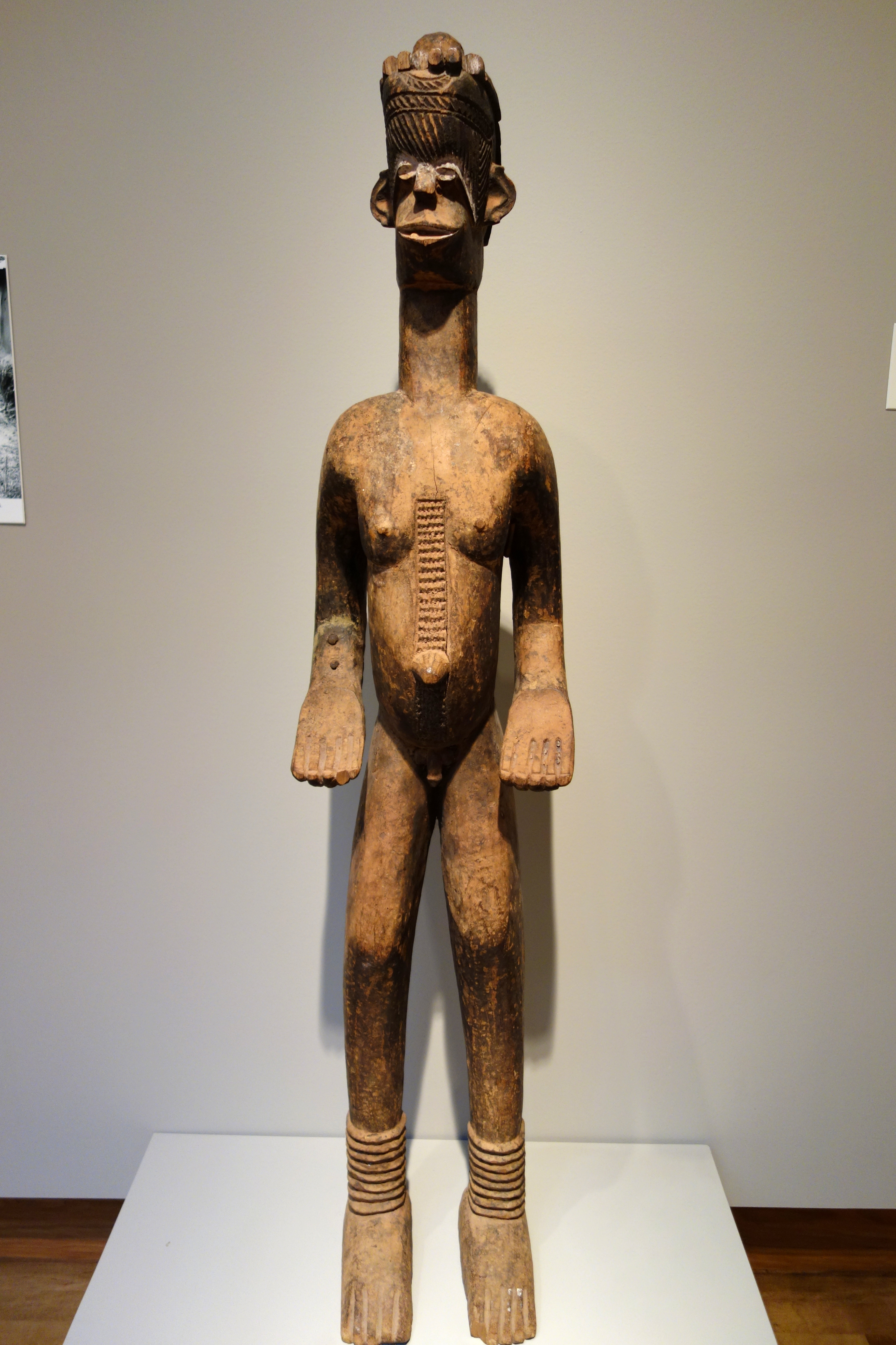 Exhibit in the Chazen Museum of Art, University of Wisconsin-Madison, Madison, Wisconsin, USA. This artwork is old enough so that it is in the public domain.